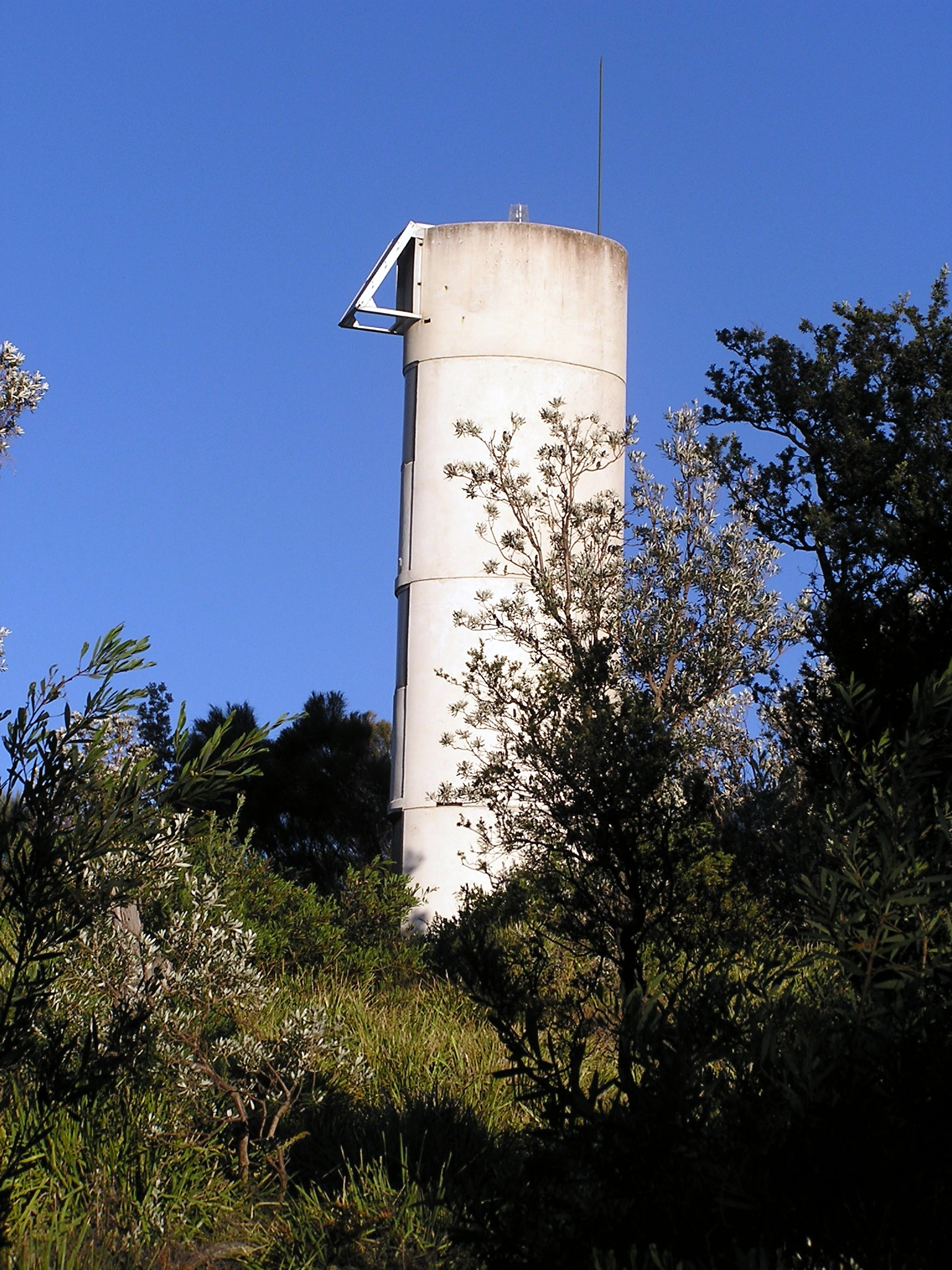 The lighthouse on Burrewarra Point near Broulee, New South Wales, Australia.